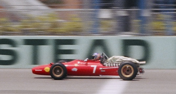 A Ferrari 67 at the 2006 Ferrari Challenge.